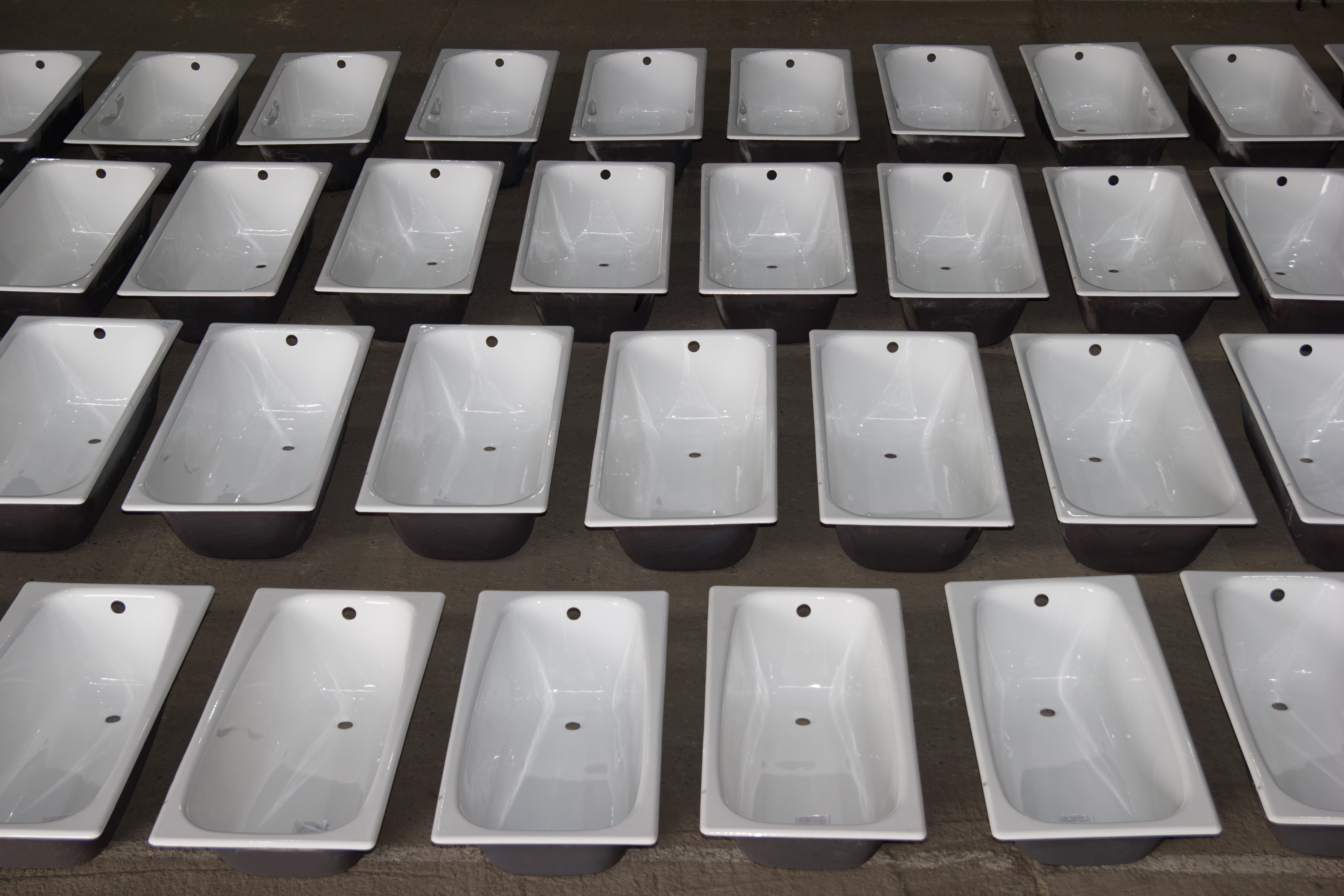 Чугунные эмалированные ванны производства АО "Завод Универсал"